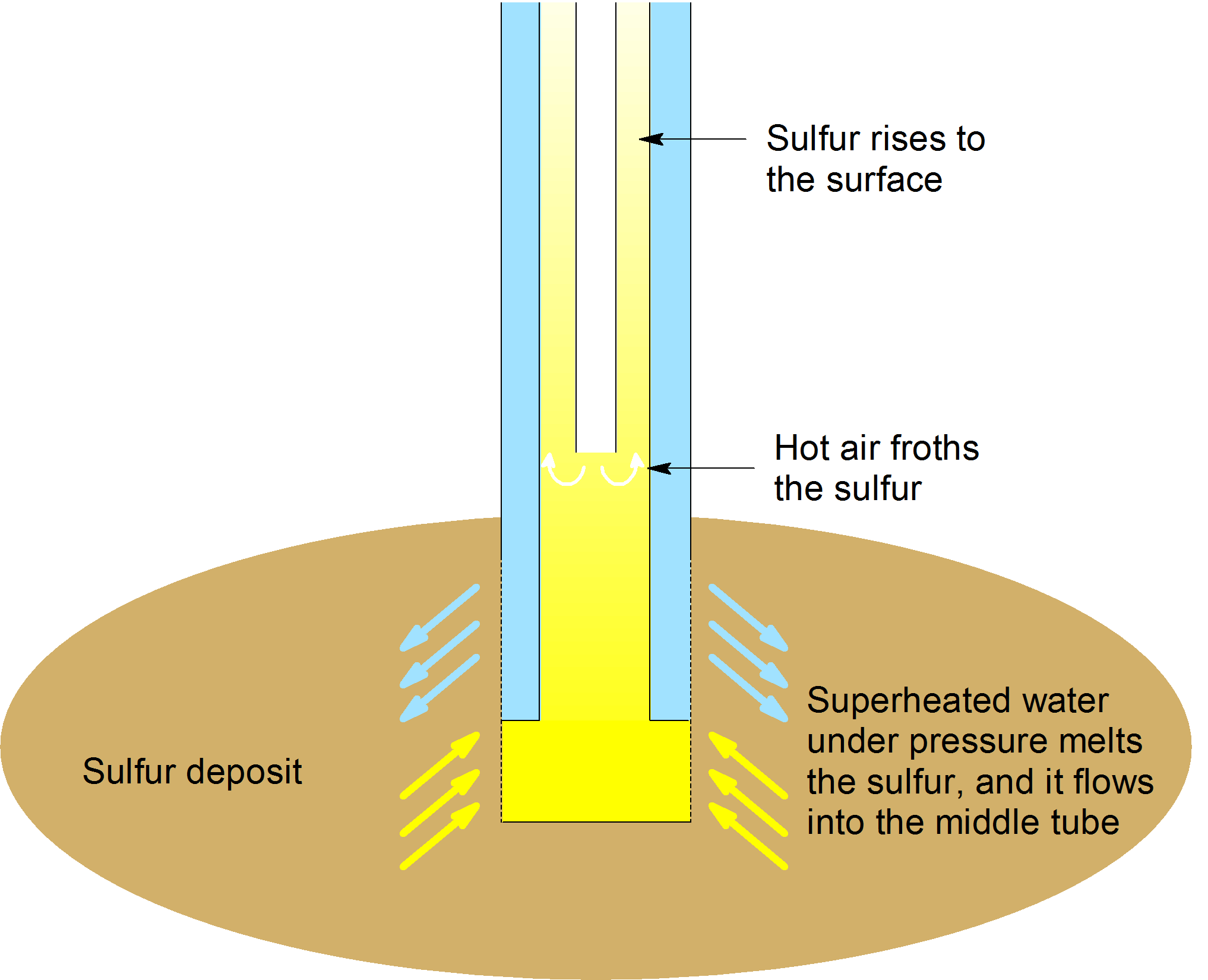 Pictorial representation of the Frasch process. Adapted from Wolfgang Nehb, Karel Vydra (2005), “Sulfur”, in Ullmann’s Encyclopedia of Industrial Chemistry, Weinheim: Wiley-VCH